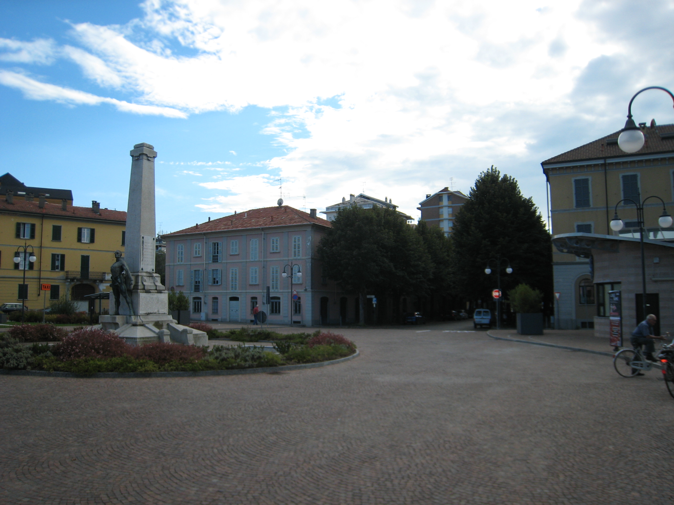 Station Square